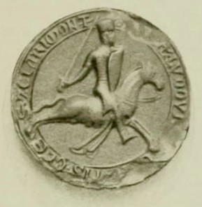 Seals of Louis of Blois 1201